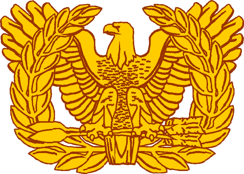 United States Army obsolete Warrant Officer insignia, called the "Eagle Rising"—in use from 1920 to 2004—[1] which is still used to represent the Warrant Officer Cohort.